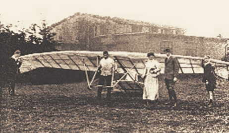 Gottlob Espenlaub with his first hang glider. Germany, 1921.